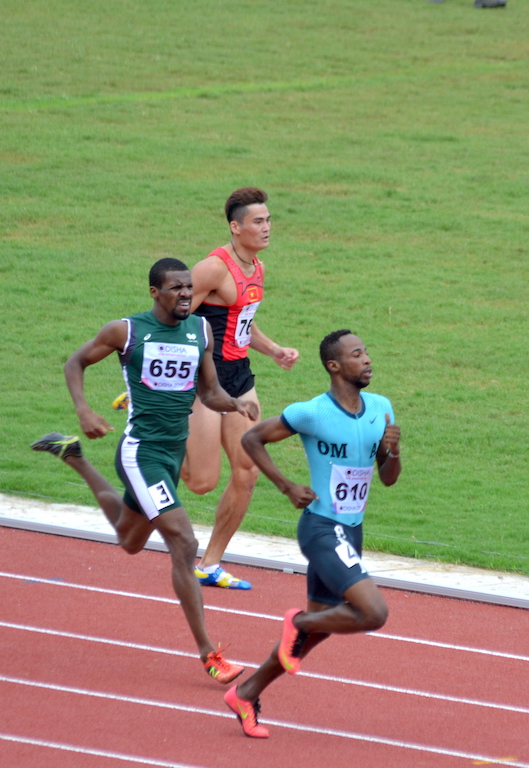 Athletes during 22nd Asian Athletics Championships in Bhubaneswar.